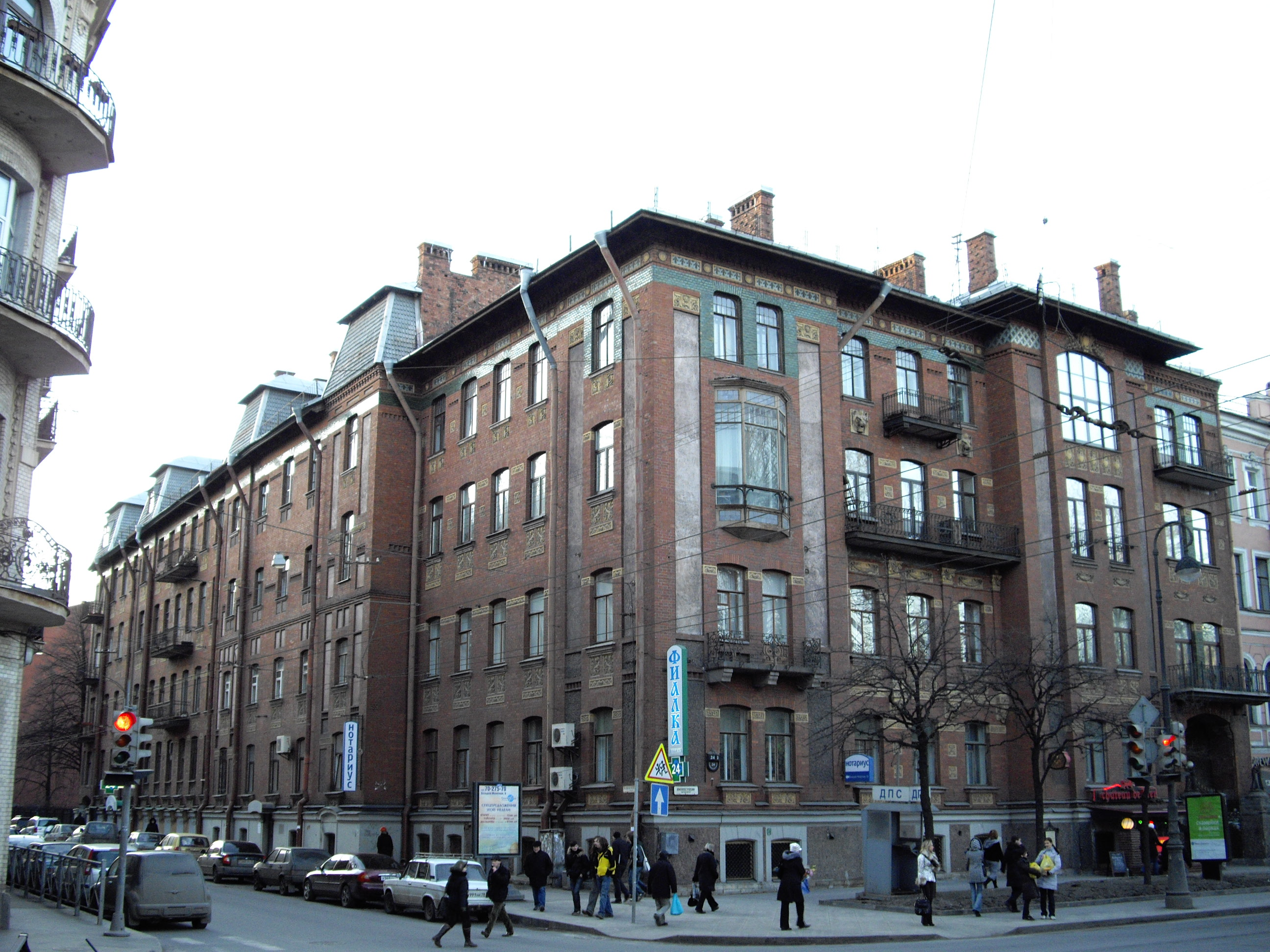 10, Bolshaya Monetnaya st. (crossing with Kamennoostrovsky av.), Saint-Petersburg, Russia. Kavos house (architects L. N. Benois, 1897; V. M. Androsov, 1908, 1912).